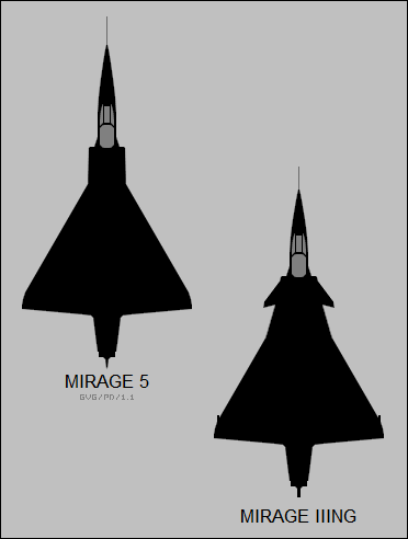 Plan-view silhouettes of the Dassault Mirage 5 and Mirage IIING